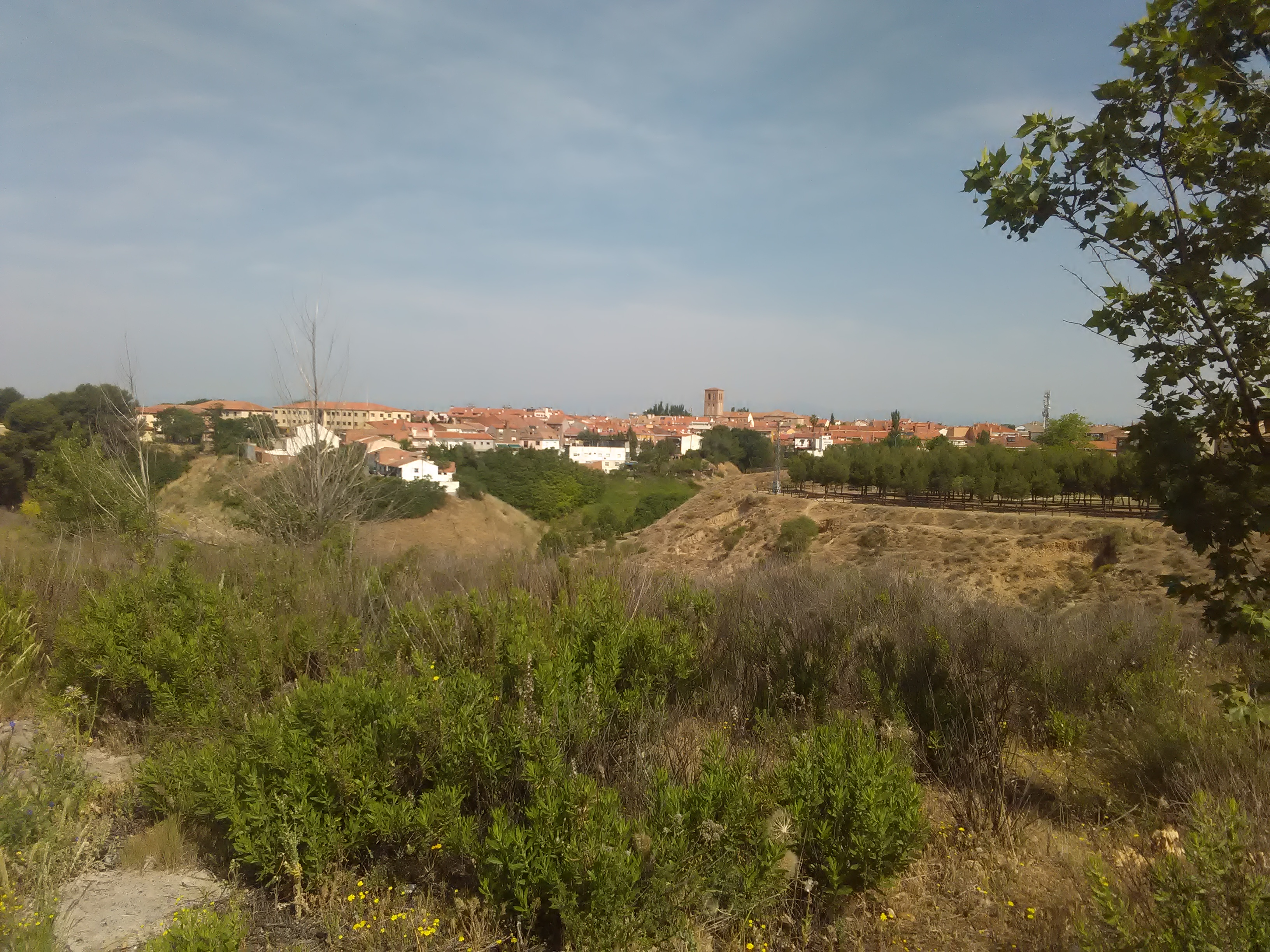 Paracuellos de Jarama from the south (27/5/2017).